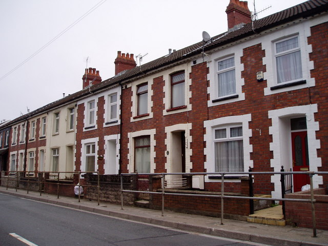 Troed-y-rhiw Original description: Rhodfa Terrace, Troed-y-Rhiw Terrace of miners' houses on the A470